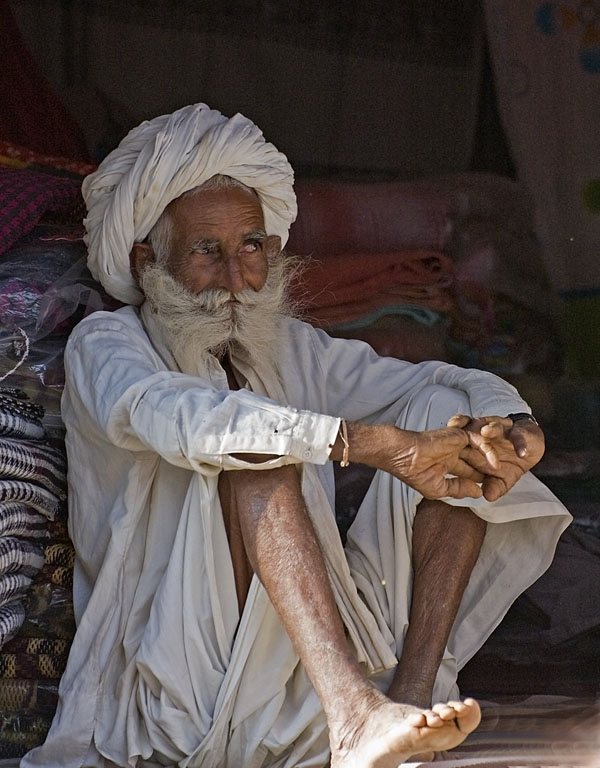 From my archives from Pushkar.